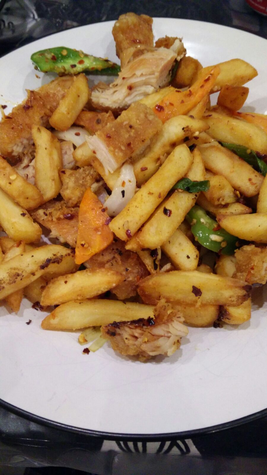 A Spice Bag sold in Dublin